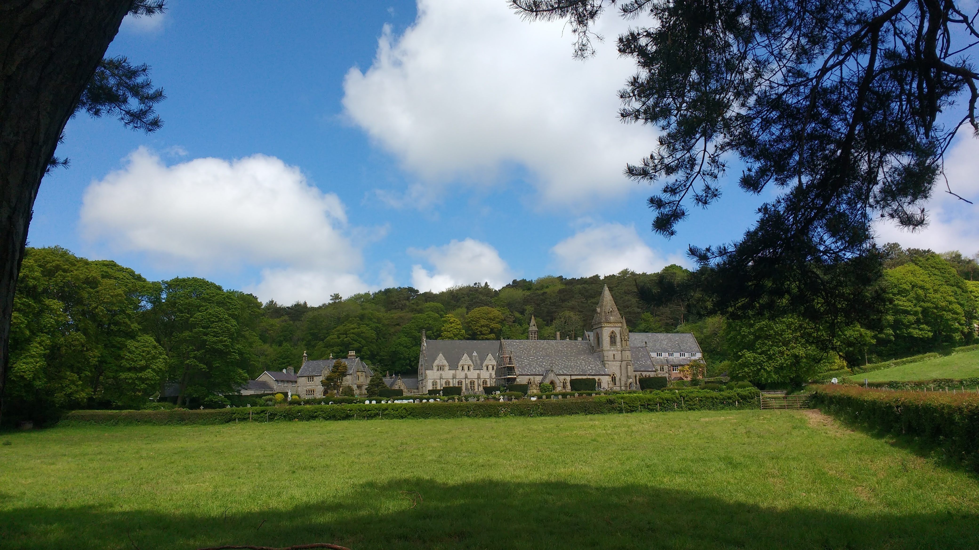 Friary